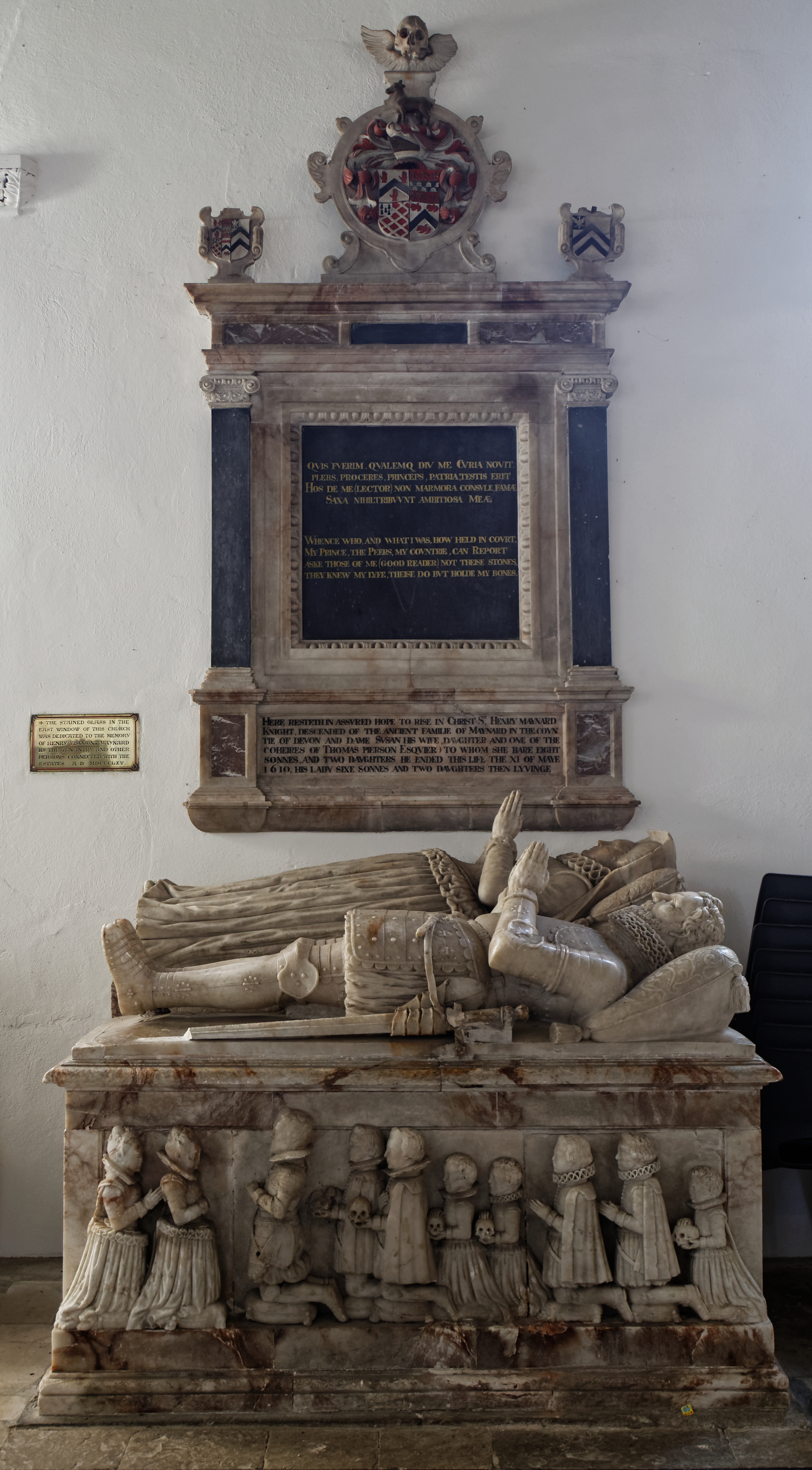 17th-century marble tomb chest and wall memorial to Henry Maynard and Susan, his wife, in the Bouchier-Maynard South Chapel of the Church of St Mary the Virgin at Little Easton, Essex, England.Software: RAW file lens-corrected, optimized and converted to JPEG with DxO OpticsPro 10 Elite, and likely further optimized and/or cropped and/or spun with Adobe Photoshop CS2.